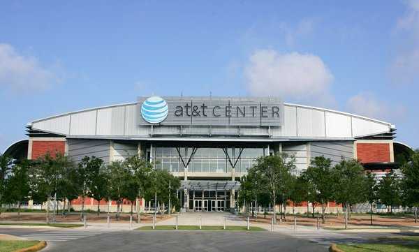 AT&T Center